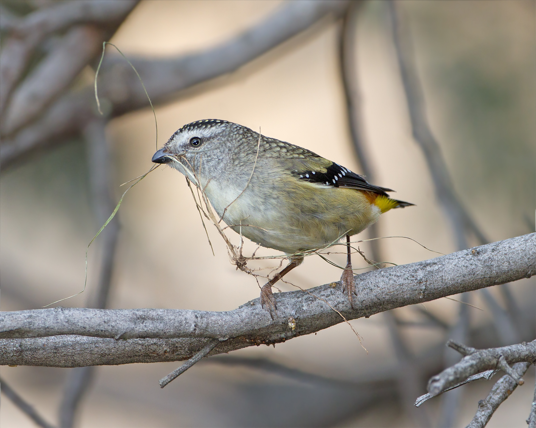 Spotted Pardalote (Pardalotus punctatus subspecies punctatus) female with nesting material, Risdon Brook Park, Tasmania, Australia